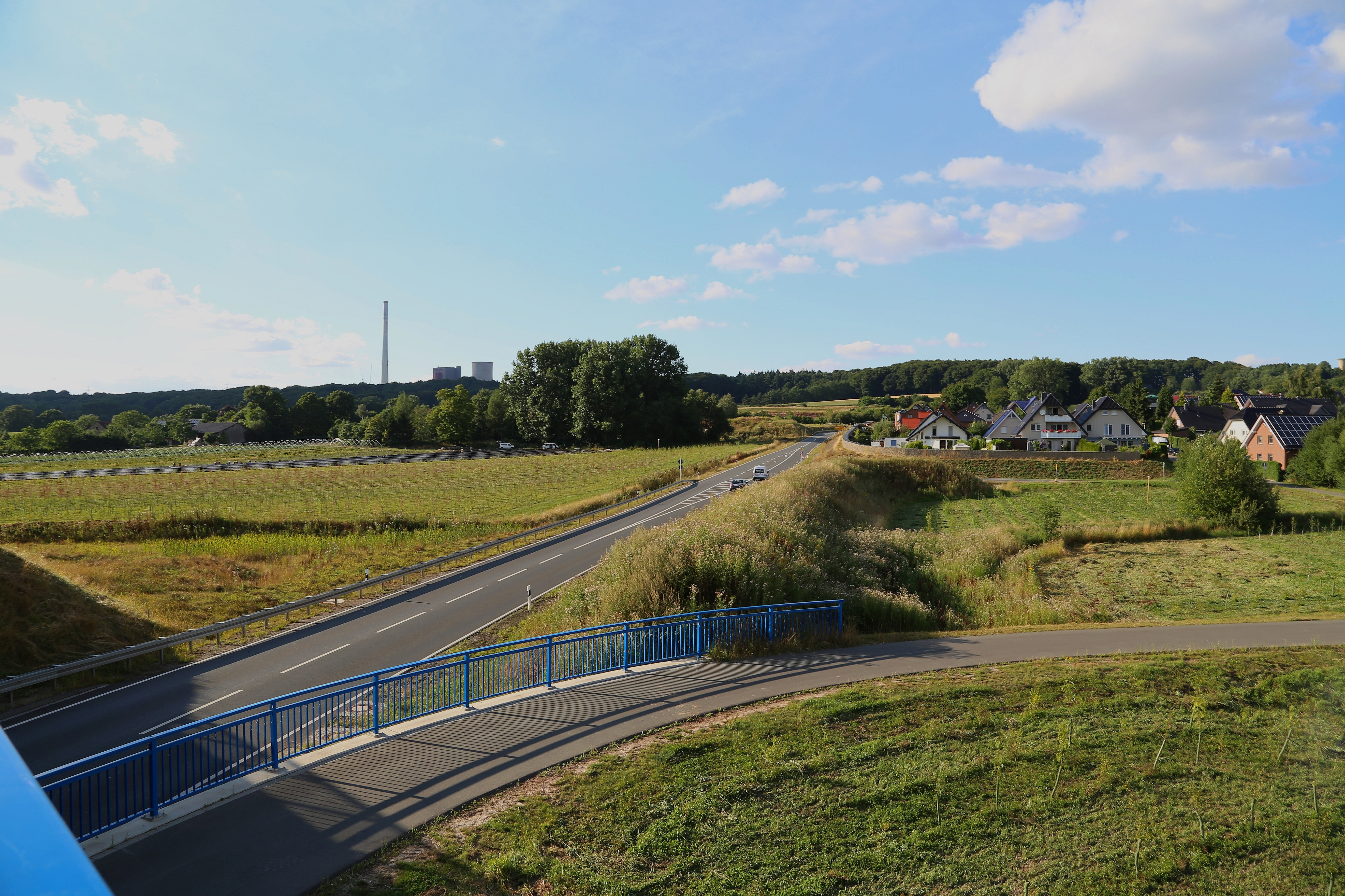 The bypass road Kreisstraße 24n (Westumgehung Laggenbeck) in Ibbenbüren-Laggenbeck, Kreis Steinfurt, North Rhine-Westphalia, Germany.